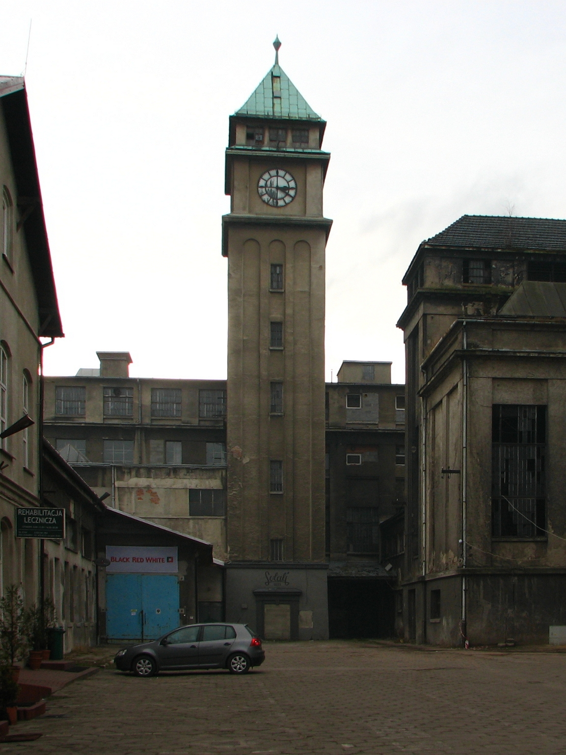 The tower of Solali paper mill in Żywiec, Księdza Prałata Stanisława Słonki street, Poland.